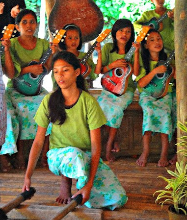 Local people perform native dances and music on Loboc river in Bohol, Philippines